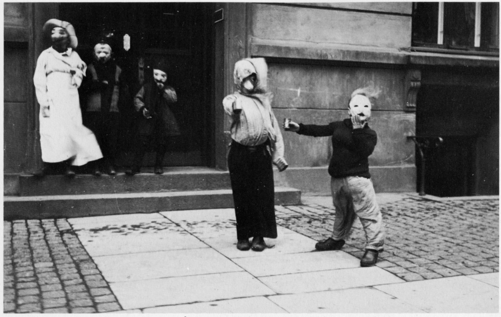 Children with "rattle boxes" preparing to collect money and treats on Fastelavn (the children's carnival)